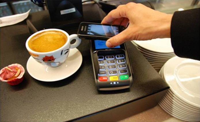 Mobile payment terminal, in Fornebu, Norway. Operated by NFC technology. Telenor.